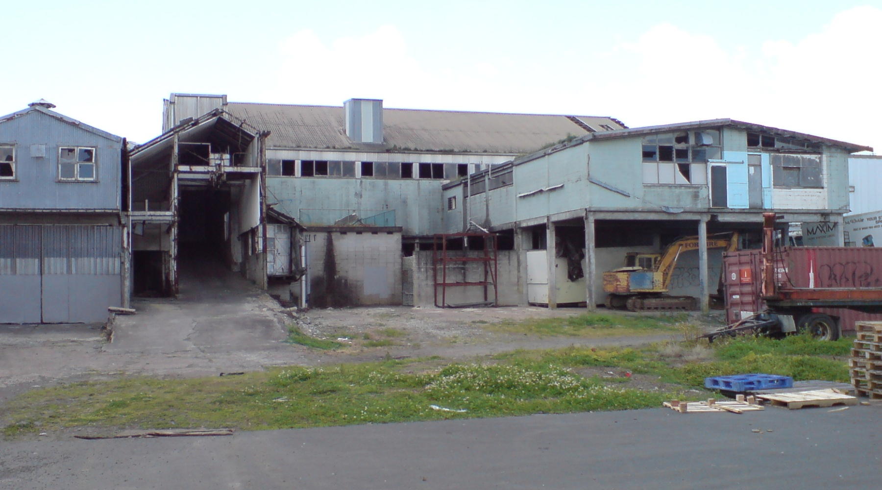 Several derelict warehouses / factories in the Southdown industrial area of Auckland City, New Zealand. These buildings reminded me a lot of a Half-Life 2 scene - there was even a bit of smoke hanging in the air...